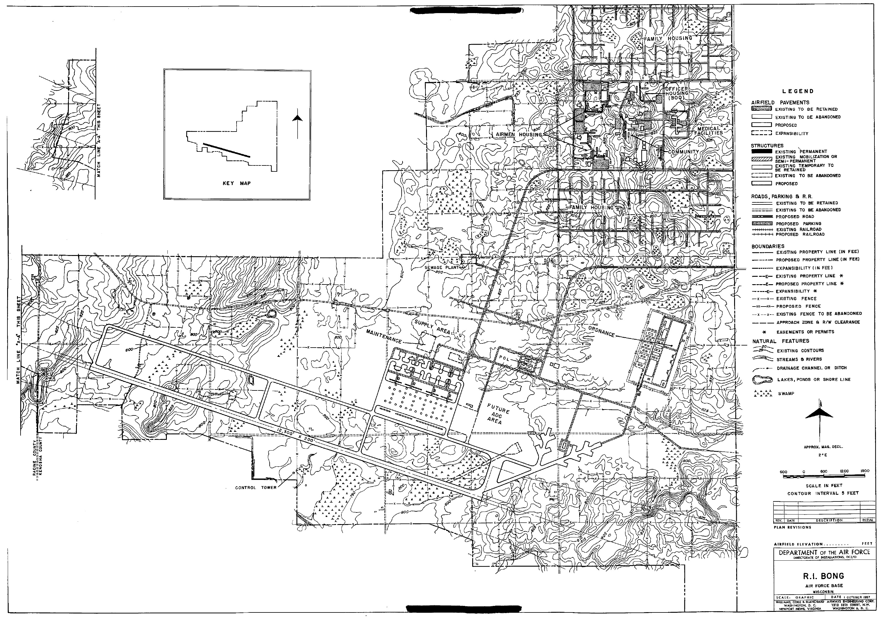 Plans for Bong Air Force Base in Brighton. The original map was taken from a Freedom of Information Act request and scanned into a computer.